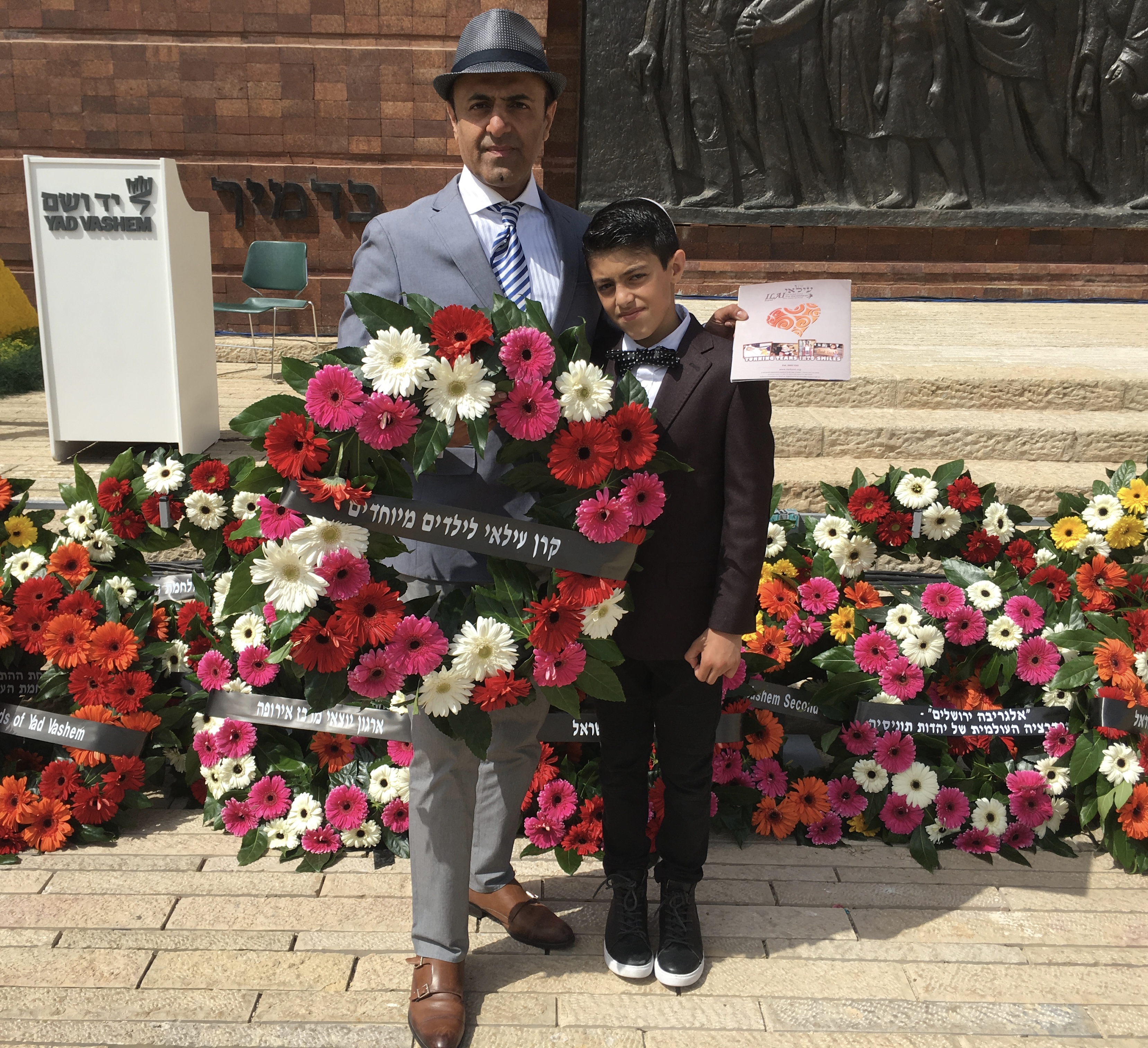 Founder of ILAI Fund Albert Shaltiel and his son Ilai at the Wreath-Laying Ceremony at Yad Vashem